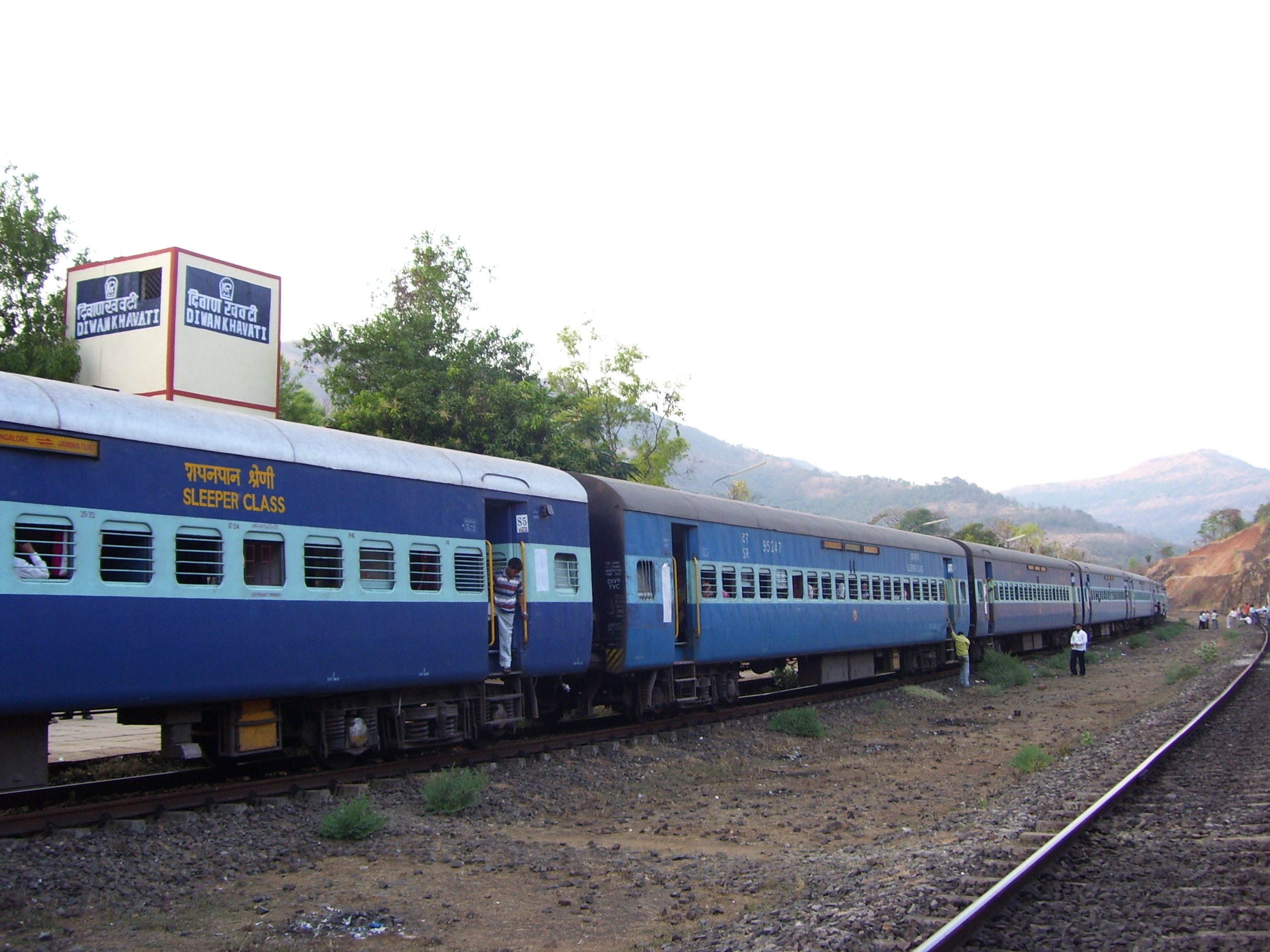 Matsyaganda Super fast Express train at Diwankhawati railway station